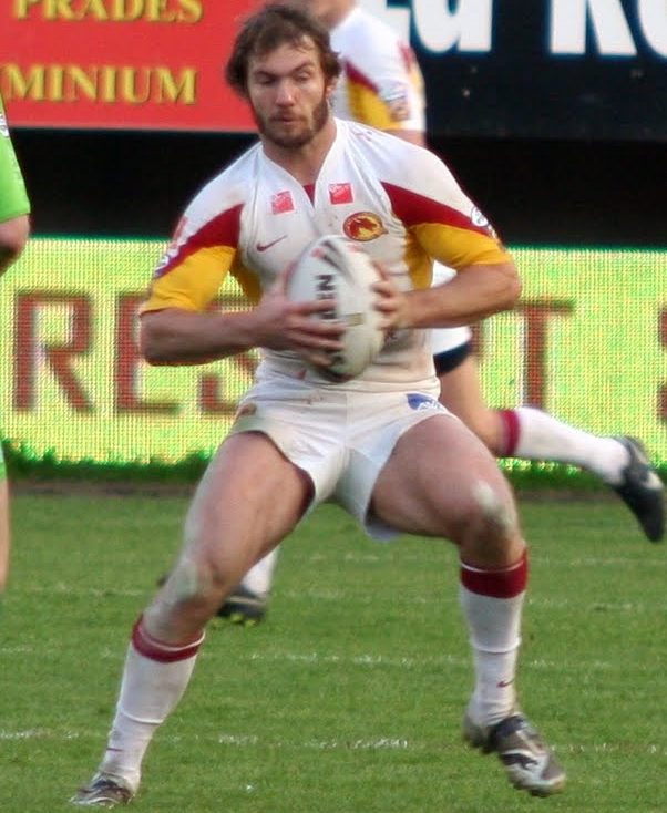 Catalans vs Bradford 2010